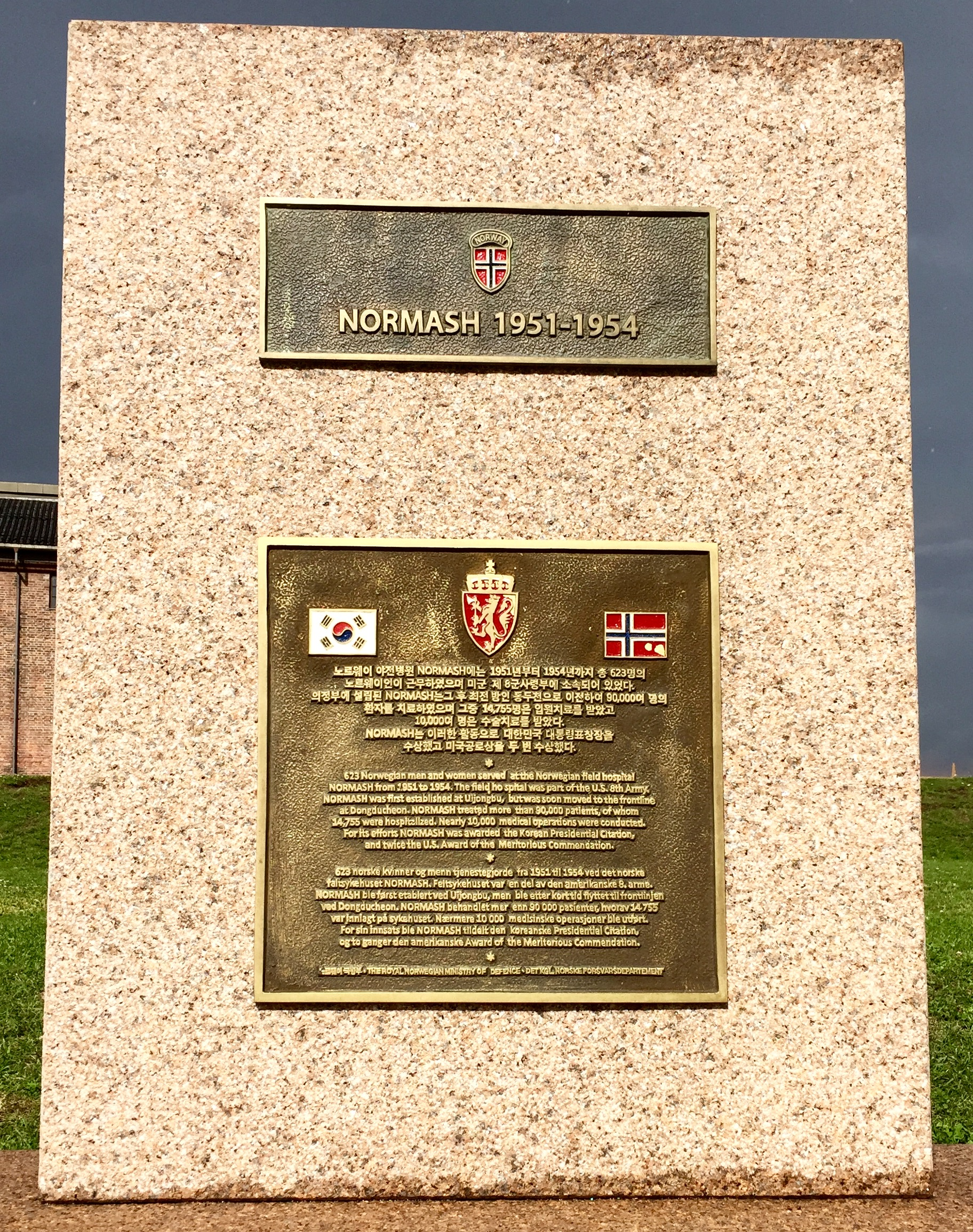 The NORMASH memorial stone